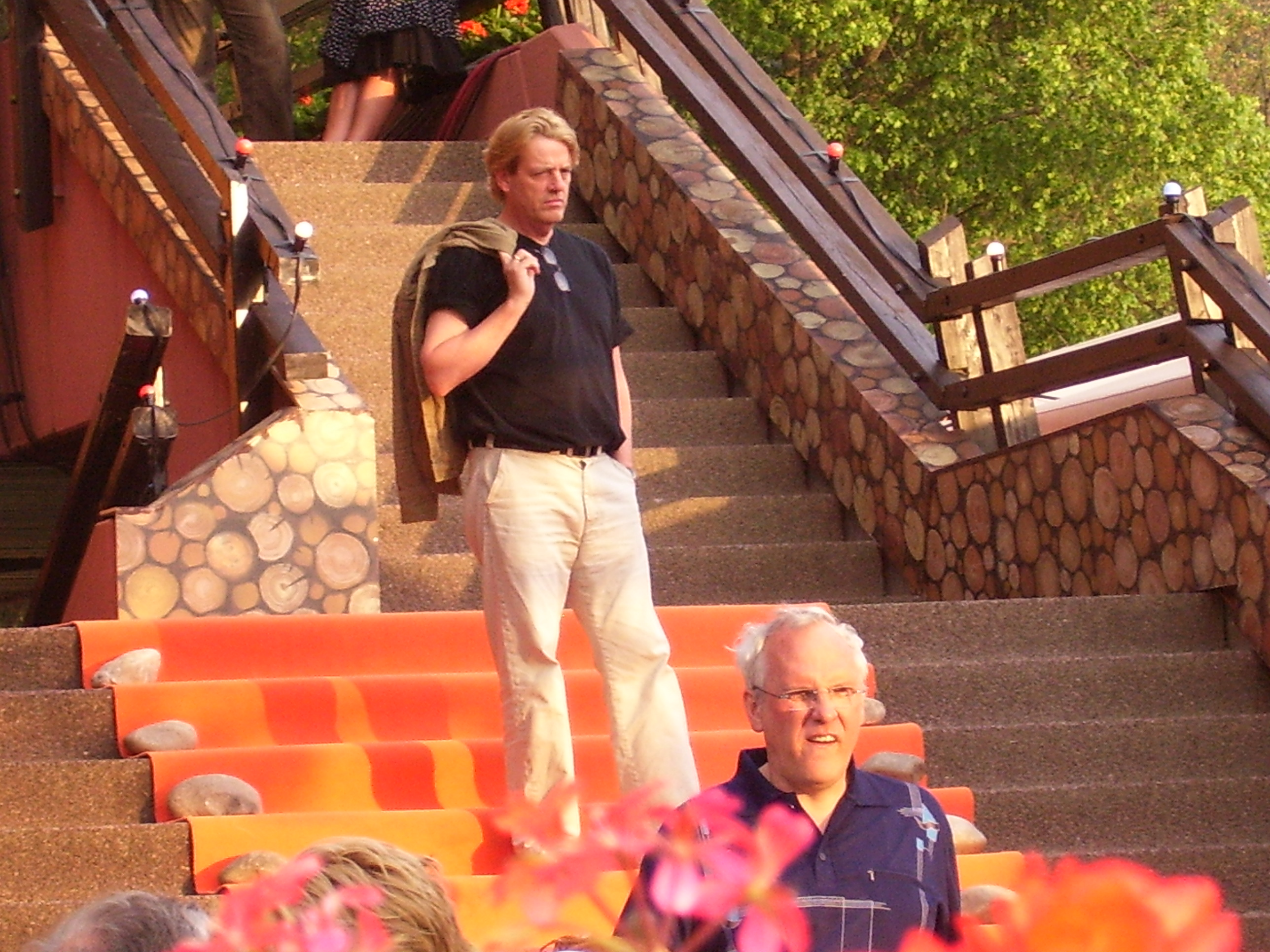 Dutch Actor Kees Prins as a singer in Villa BvD am Titisee